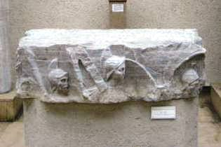 Fragment of memorial column to Emperor Theodosius I. Marble, Beyazit, date between 386-393 CE. Inv. 73 76 T.